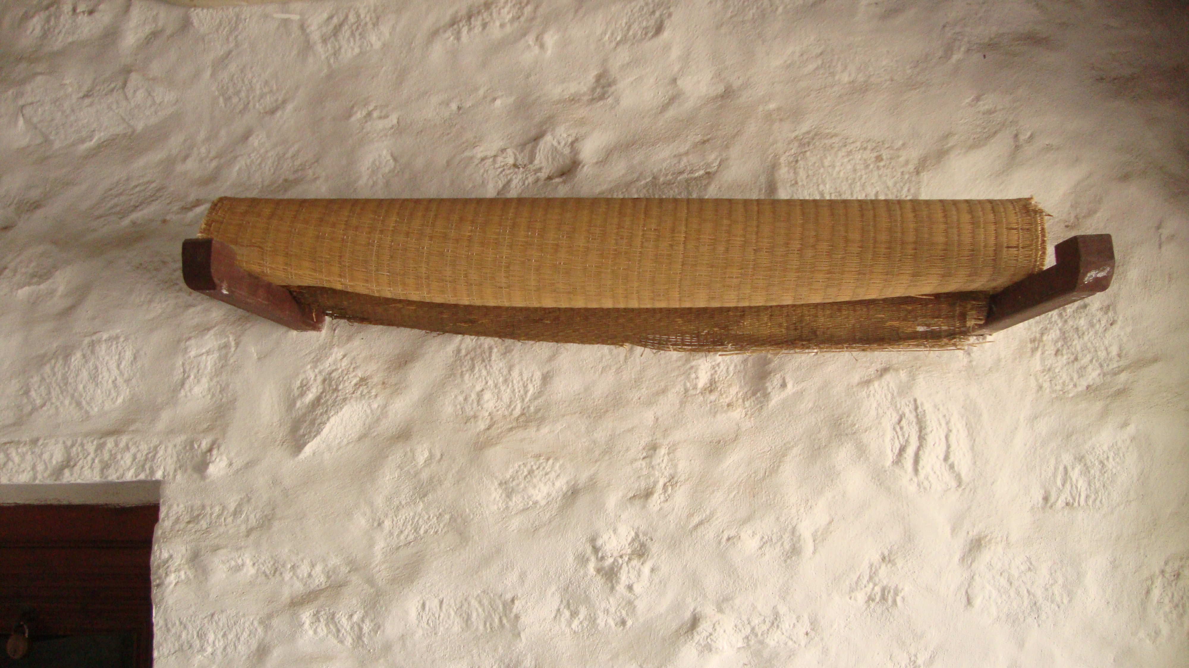 Woven mat and stand in the museum collection